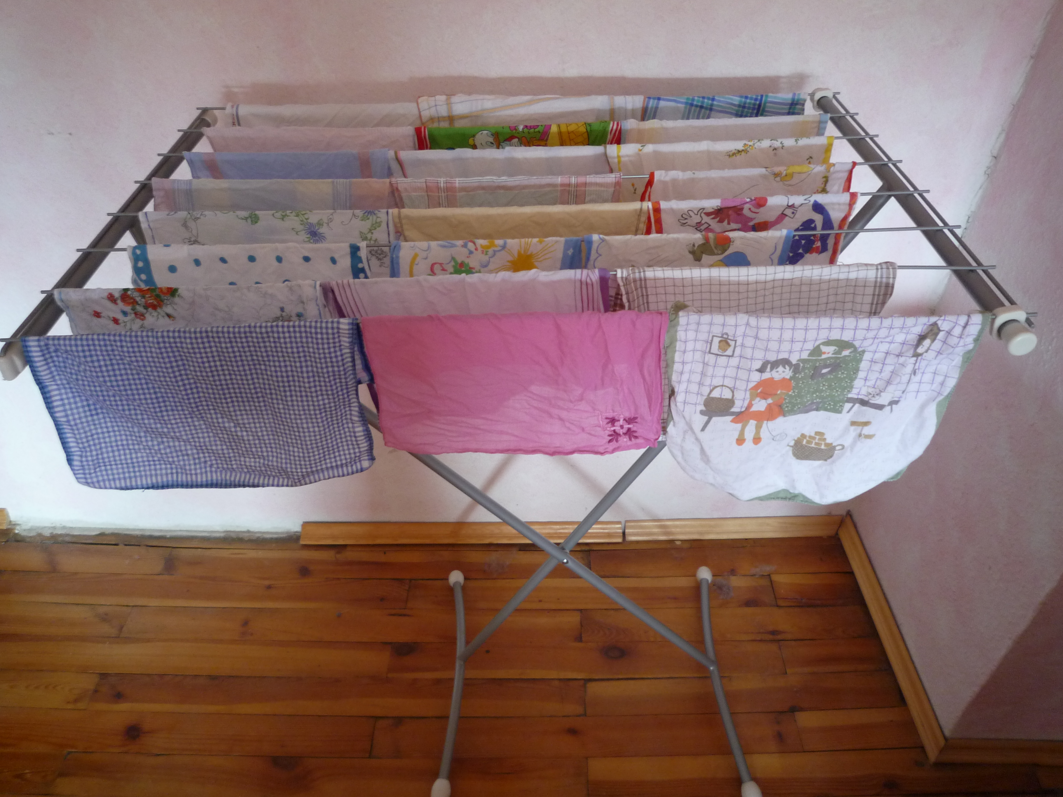 My nose really likes fabric handkerchiefs :-)